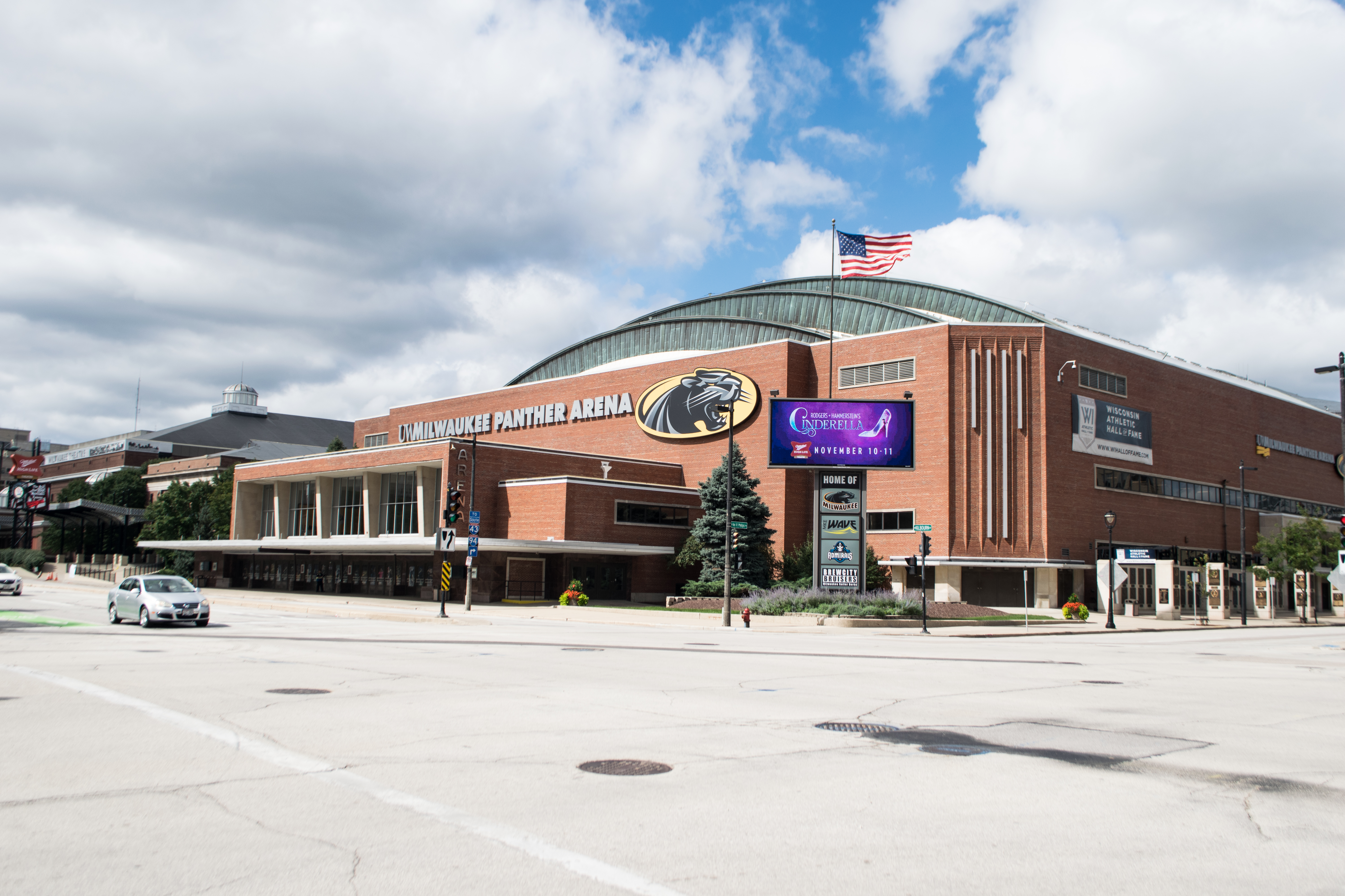 Picture of the UWM Panther Arena in Milwaukee